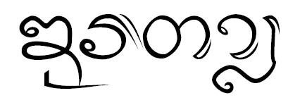 Lanna script – Khun Tan is a district (amphoe) of Chiang Rai Province, northern Thailand.